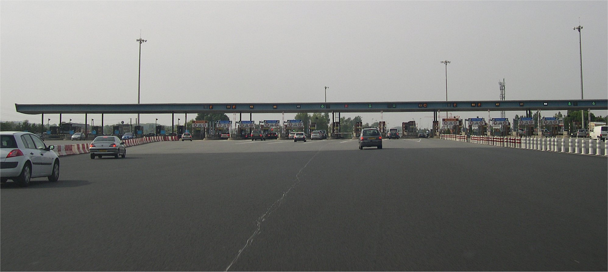 A highway toll near Toulouse, France.